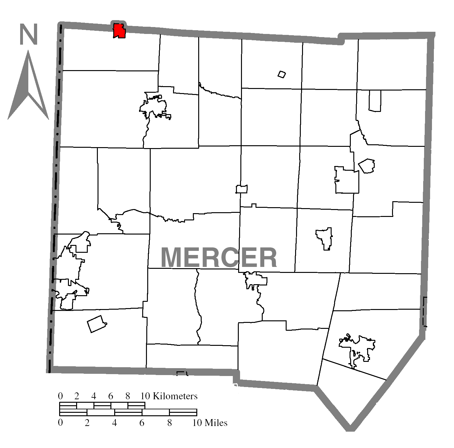 Map of Mercer County higlighting Jamestown.